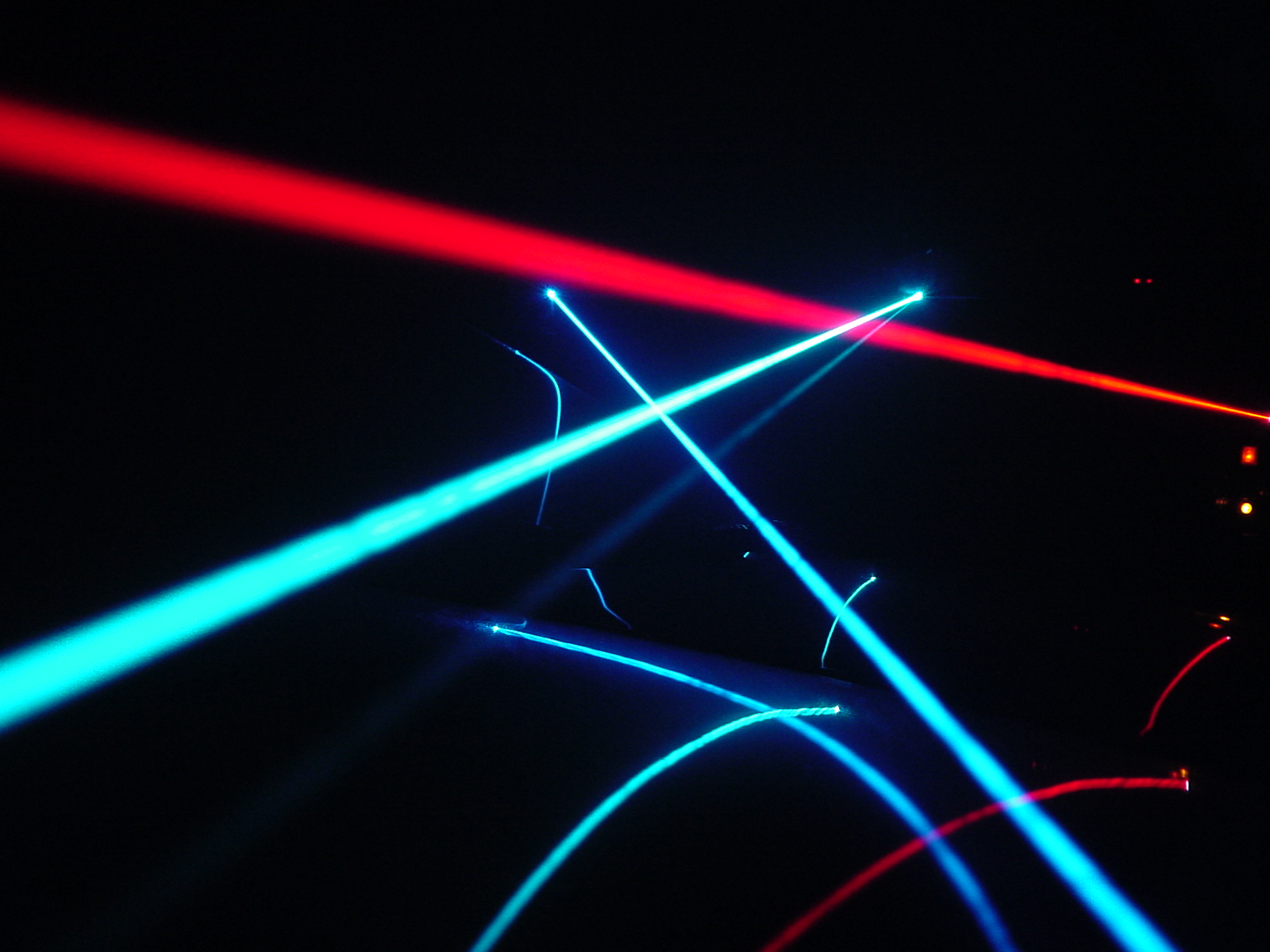 Fun with an Argon-ion and a He-Ne laser. Most of these photos are from around 2000-2001.